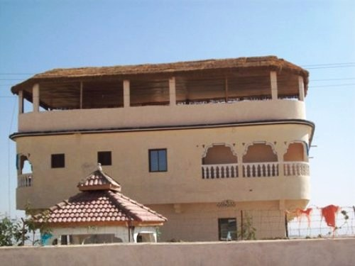 New hotel in Badhan, 3 floors